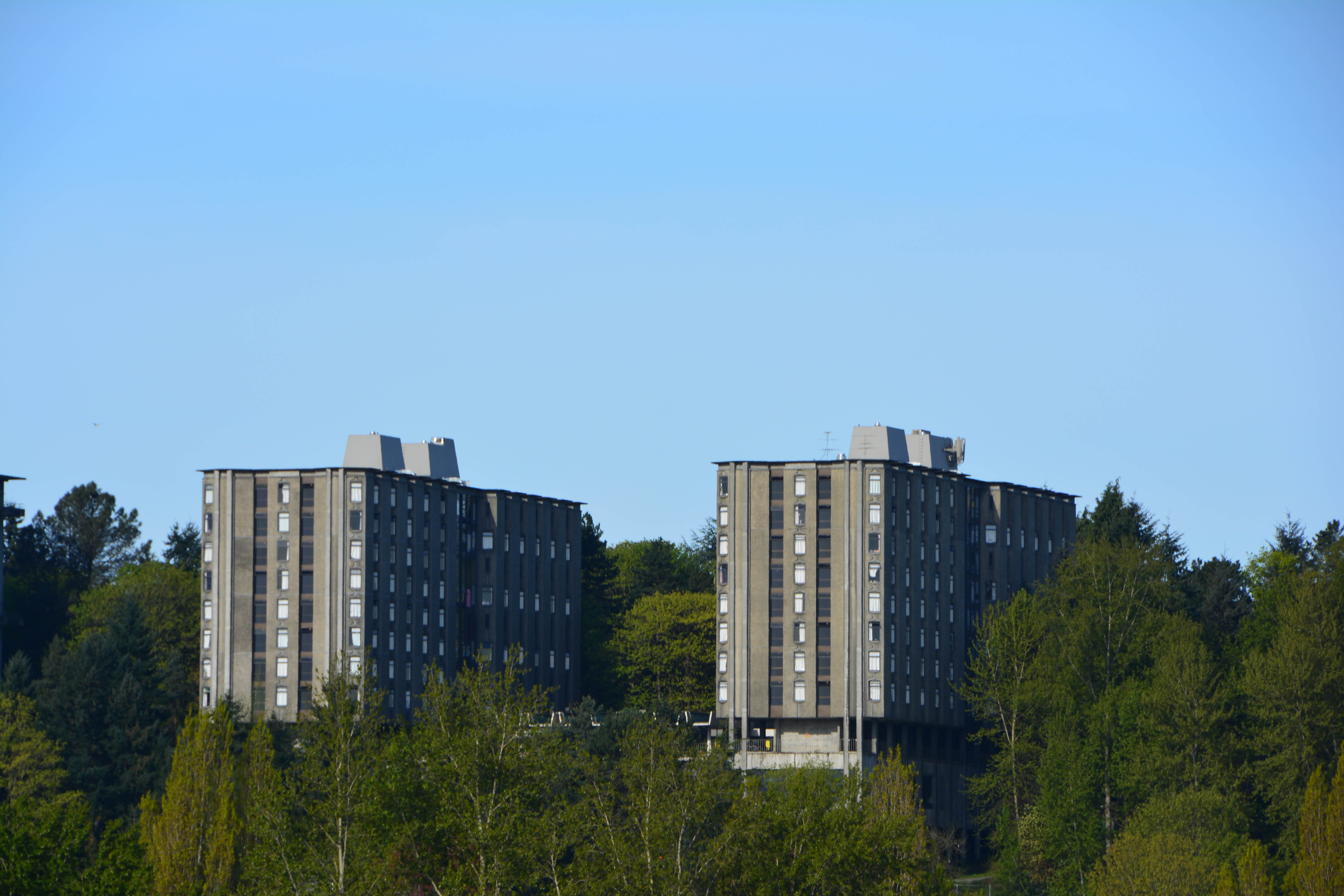 Haggett Hall as seen from the Burke Gilman Trail, North of University Village